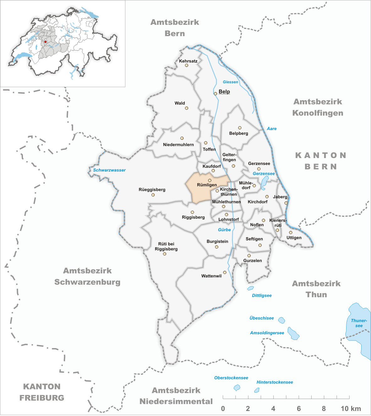 Municipality Rümligen